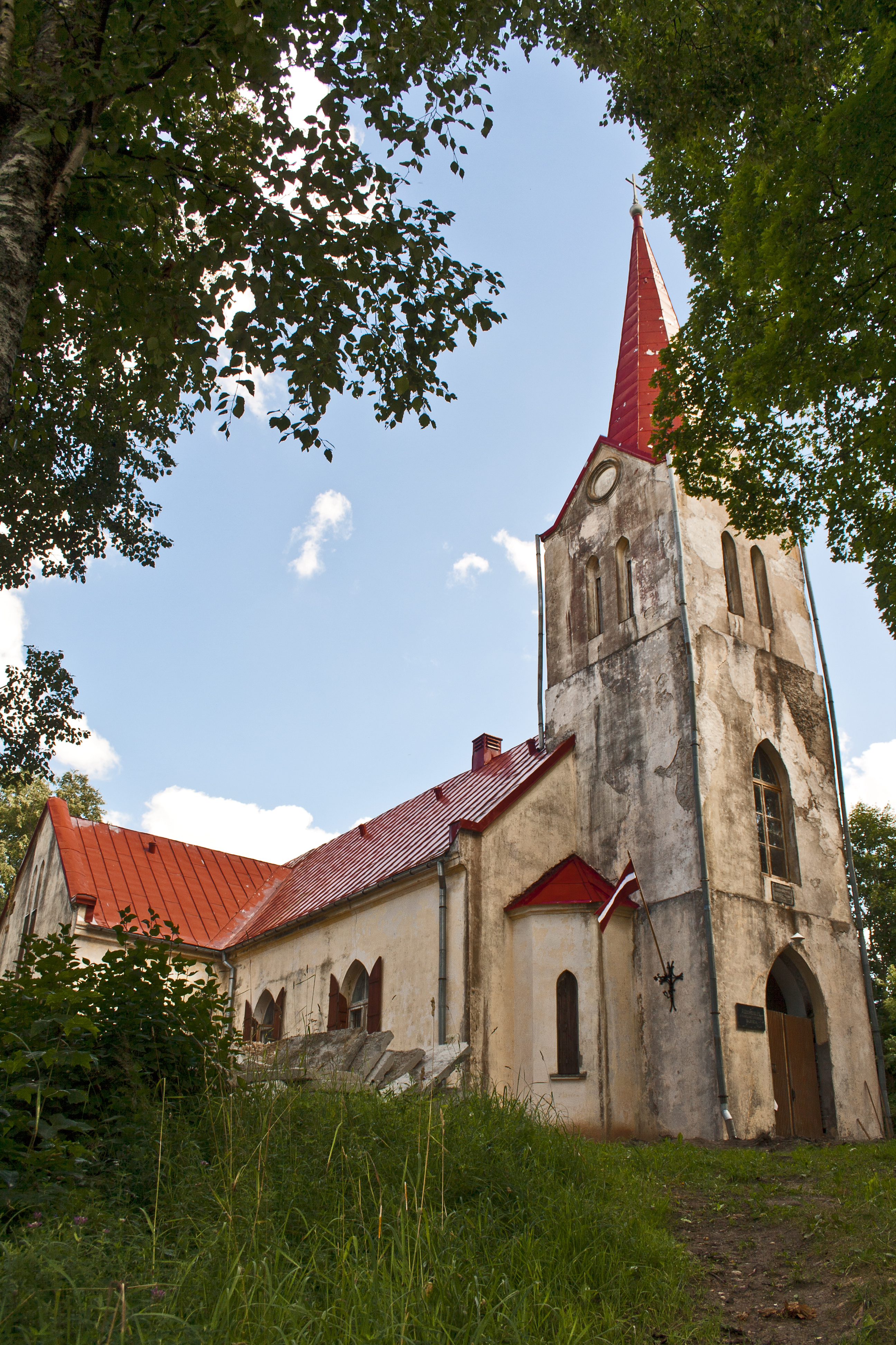 Aizkraukle Evangelical Lutheran ChurchLatviešu: Aizkraukles evaņģēliski luteriskā baznīca